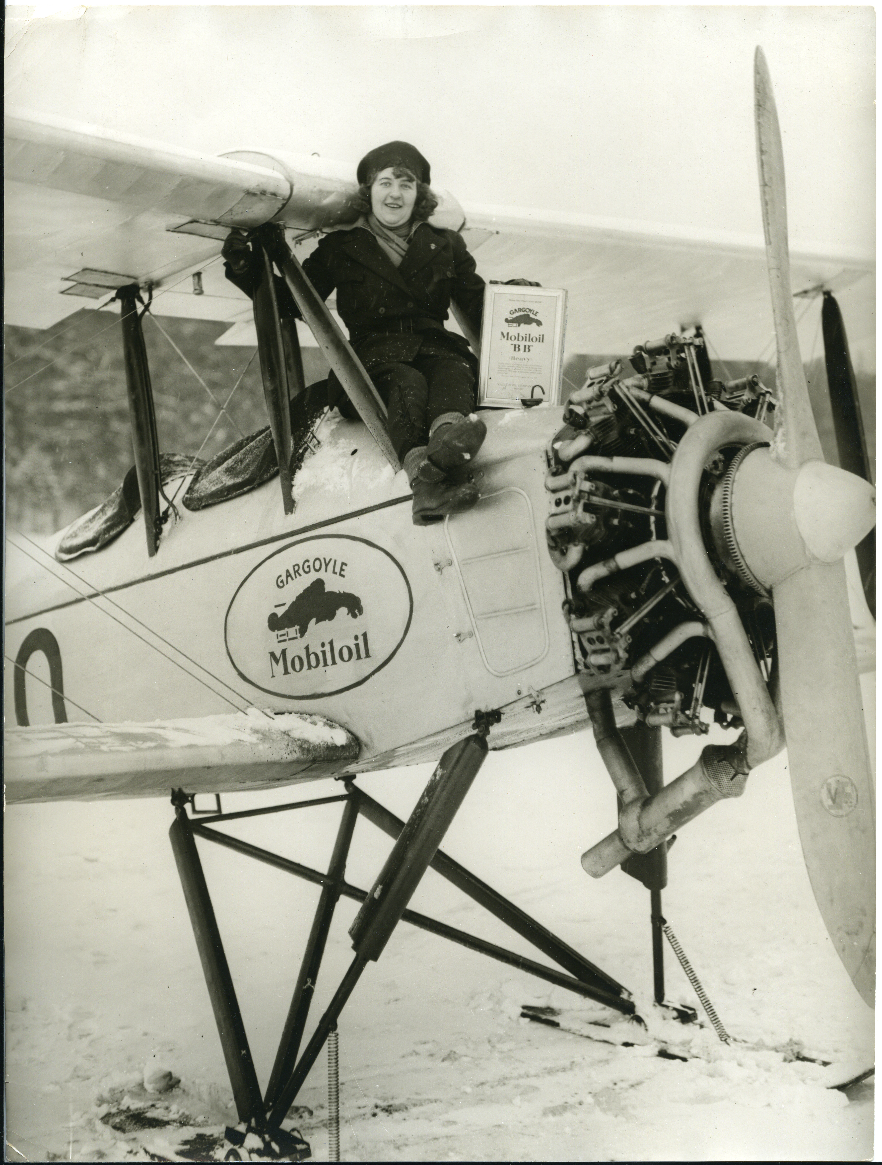 Bildetekst: Frk. Gidsken N. Jakobsen. The first norwegian lady-aviator.